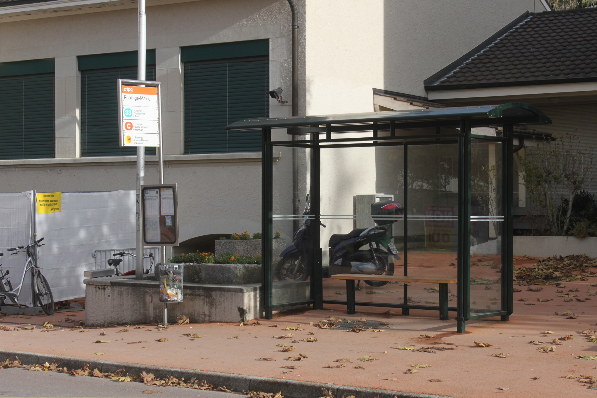 "Puplinge, mairie" bus stop.